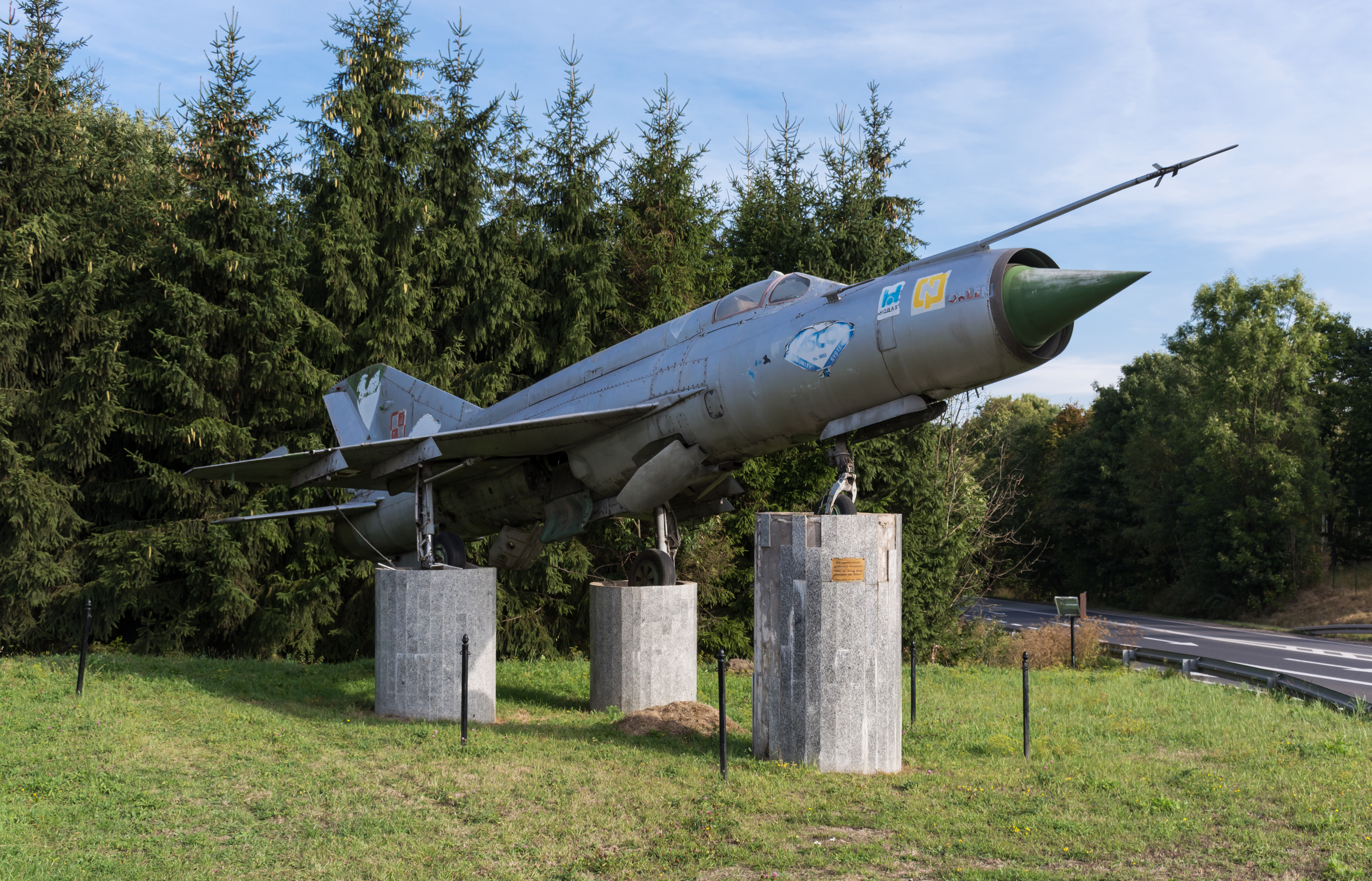 Monument - the aircraft MiG-21M in Nowa Ruda